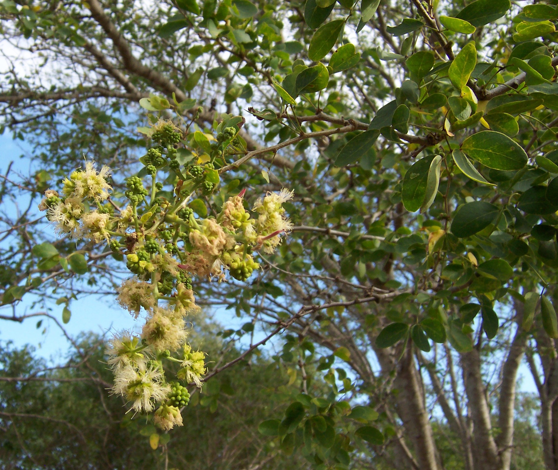 Photo : B.navez - SEP 2005 - Reunion island Pithecellobium dulce (Roxb.) Benth. fr Tamarin d'Inde - fleurs en flowers